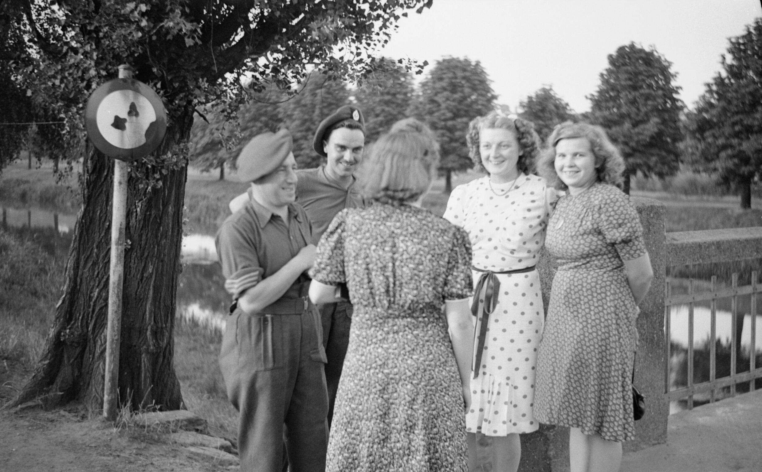 British soldiers chatting to German girls, 16 July 1945. Two British soldiers chatting to three German girls. A scene of the growing fraternization between the occupying forces and German civilians.